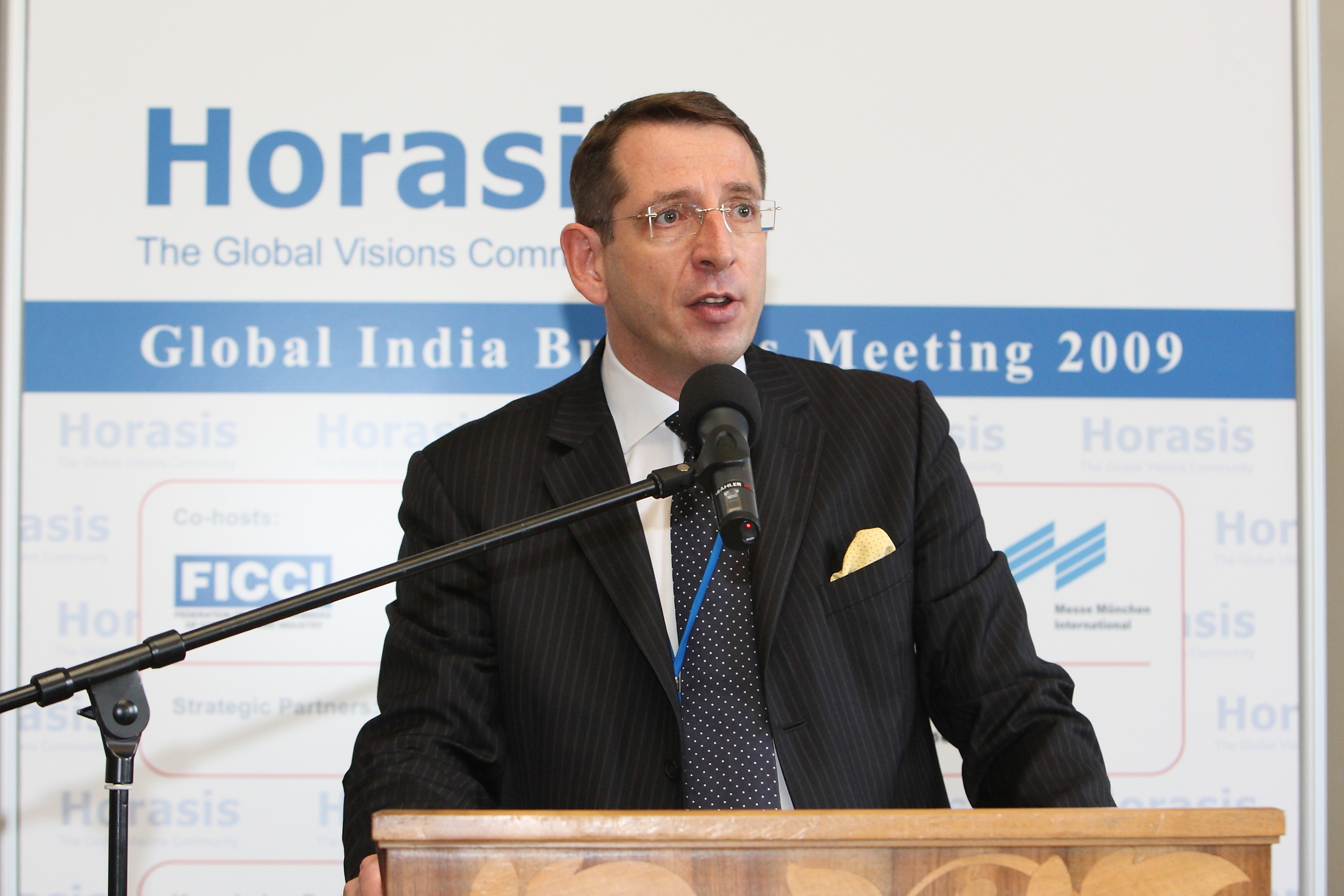 Frank-Jürgen Richter, President, Horasis, welcoming participants at Horasis Global India Business Meeting 2009